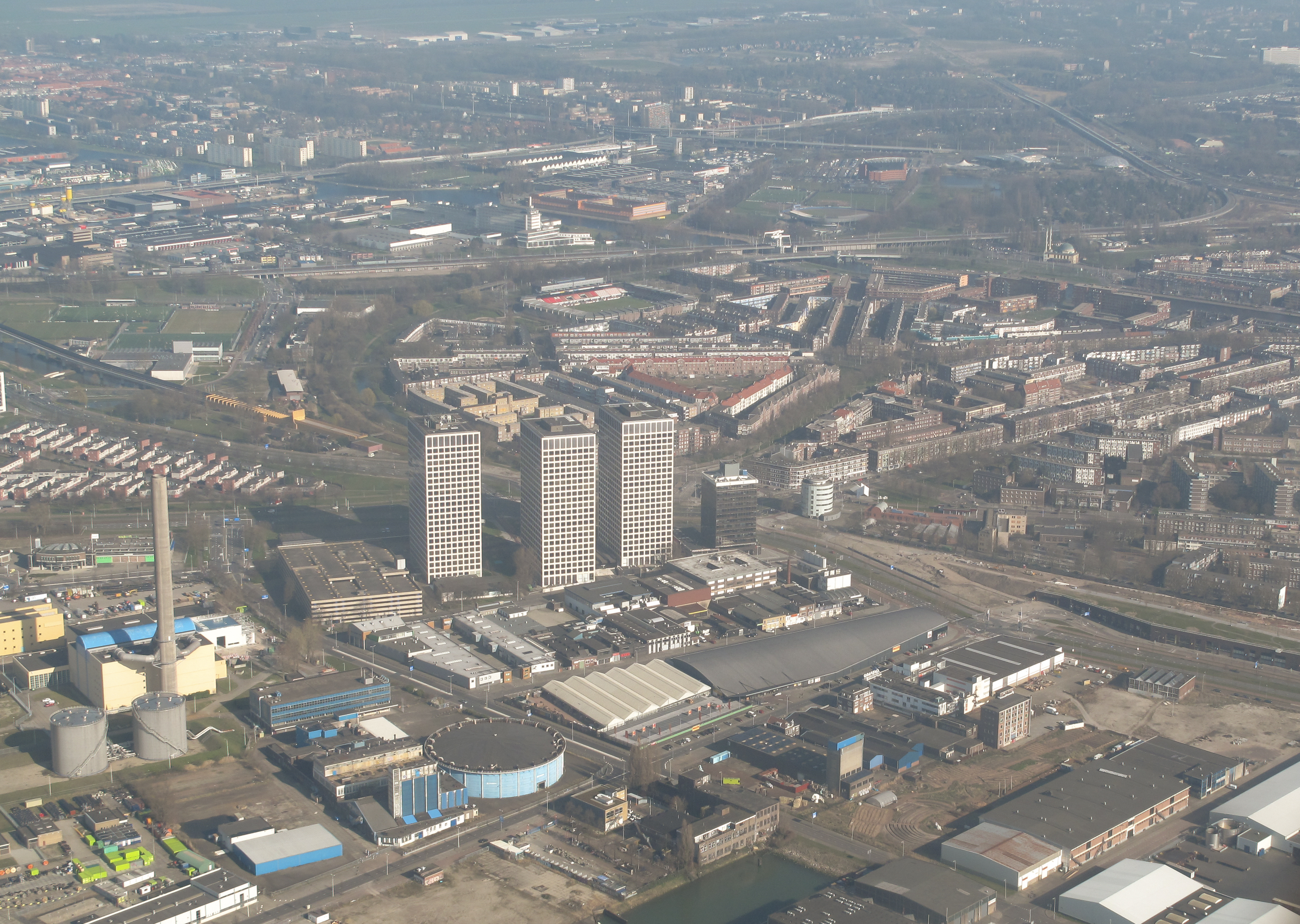 Rotterdam, square (Marconiplein) Europoint and Spangen